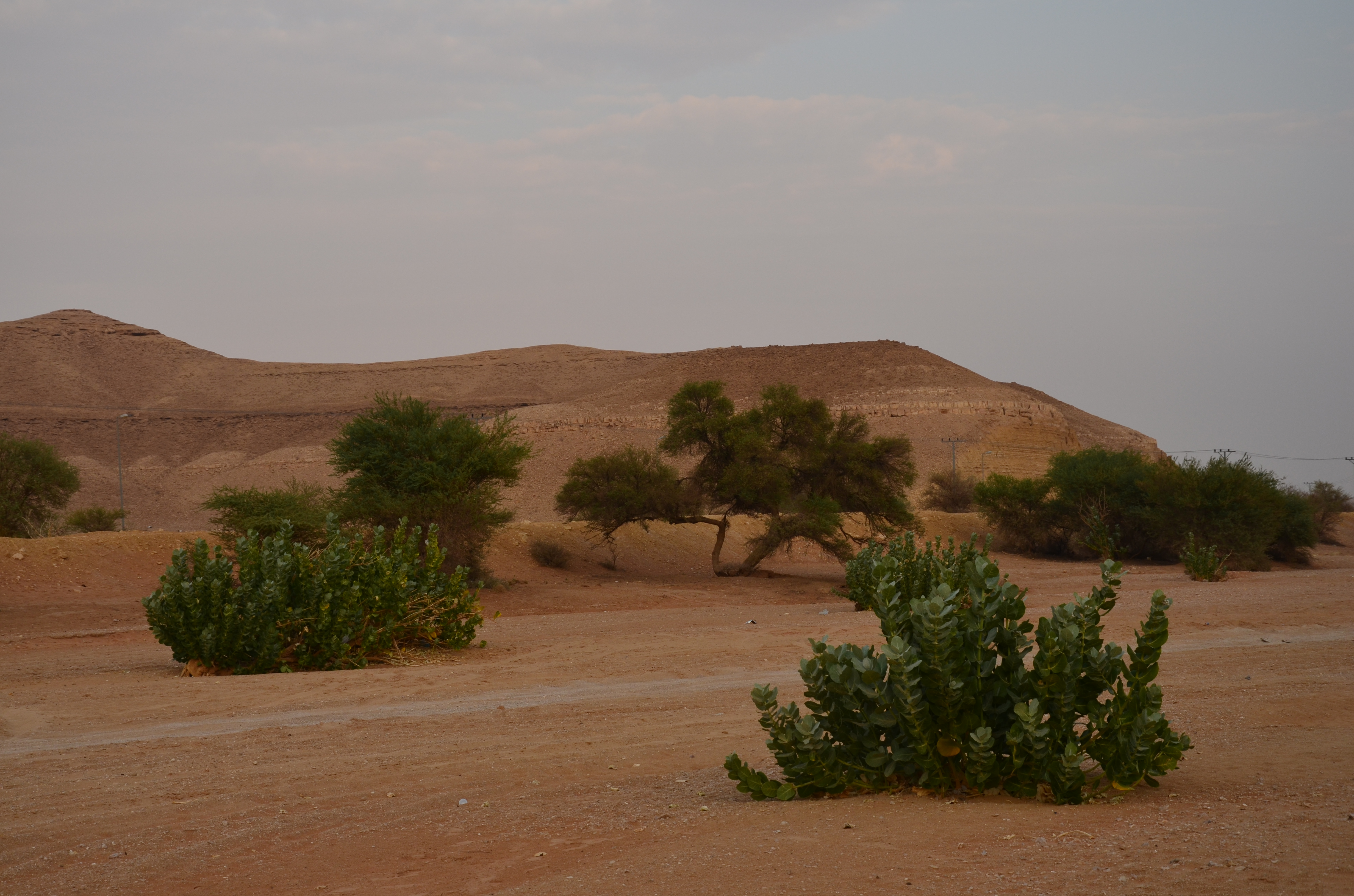 Al Oyainah Al-'Uyayna (Arabic: العيينة) is a village in central Saudi Arabia, located some 30 km northwest of the Saudi capital Riyadh.